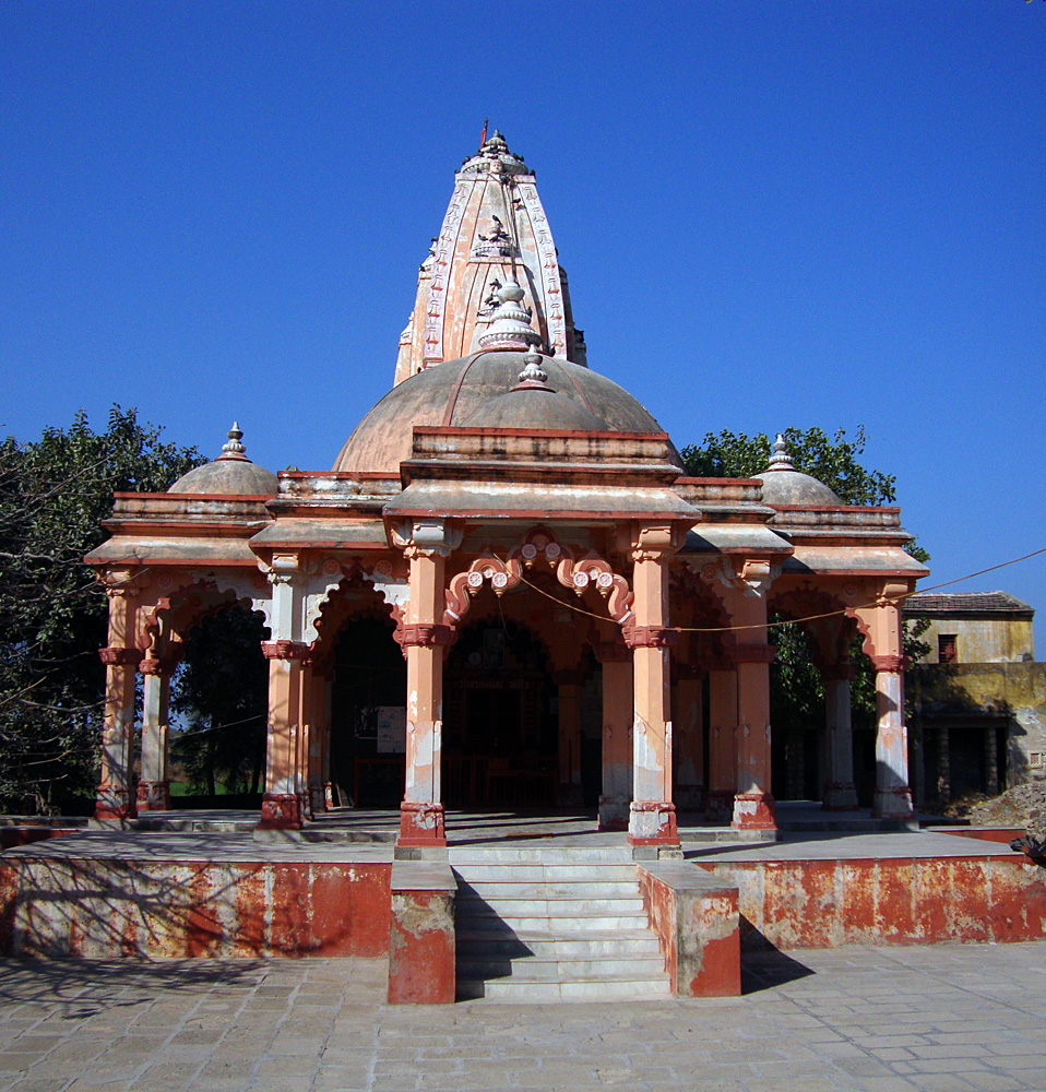 Gorakhnath temple. At Odadar village - Porabandar, (Gujarat. India). ગુજરાતી: ગોરખનાથ મંદિર, ઓડદર, પોરબંદર, ગુજરાત, ભારત.